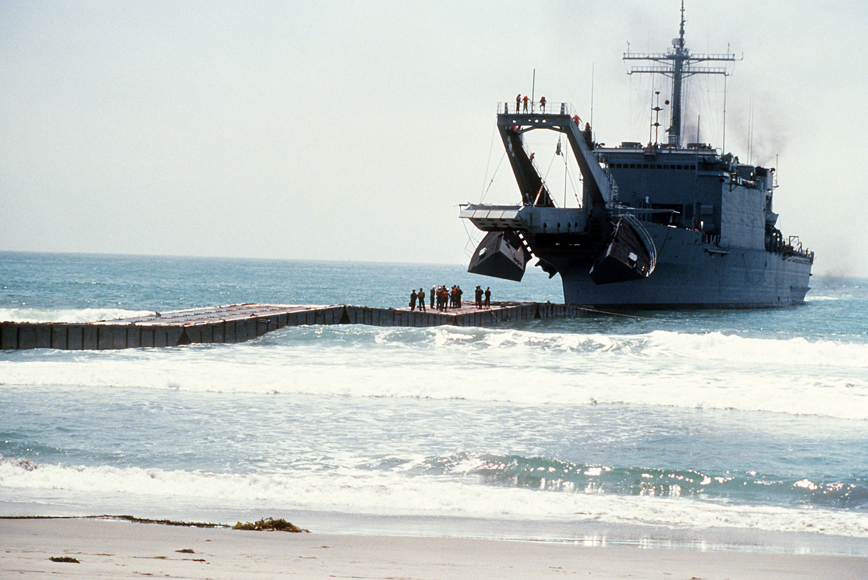 U.S. Navy crewmen stand at the end of a causeway as the tank landing ship USS San Bernardino (LST-1189), with bow open, prepares to lower its ramp off Coronado, California (USA).